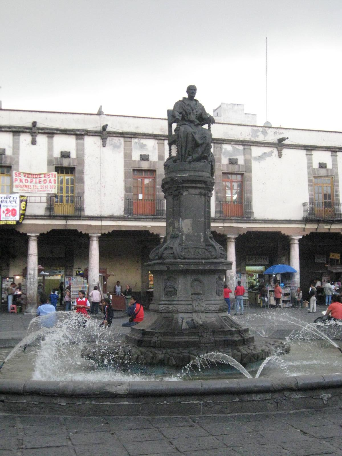 Statue and fountain in center of Plaza Santo Domingo in the Centro of Mexico City